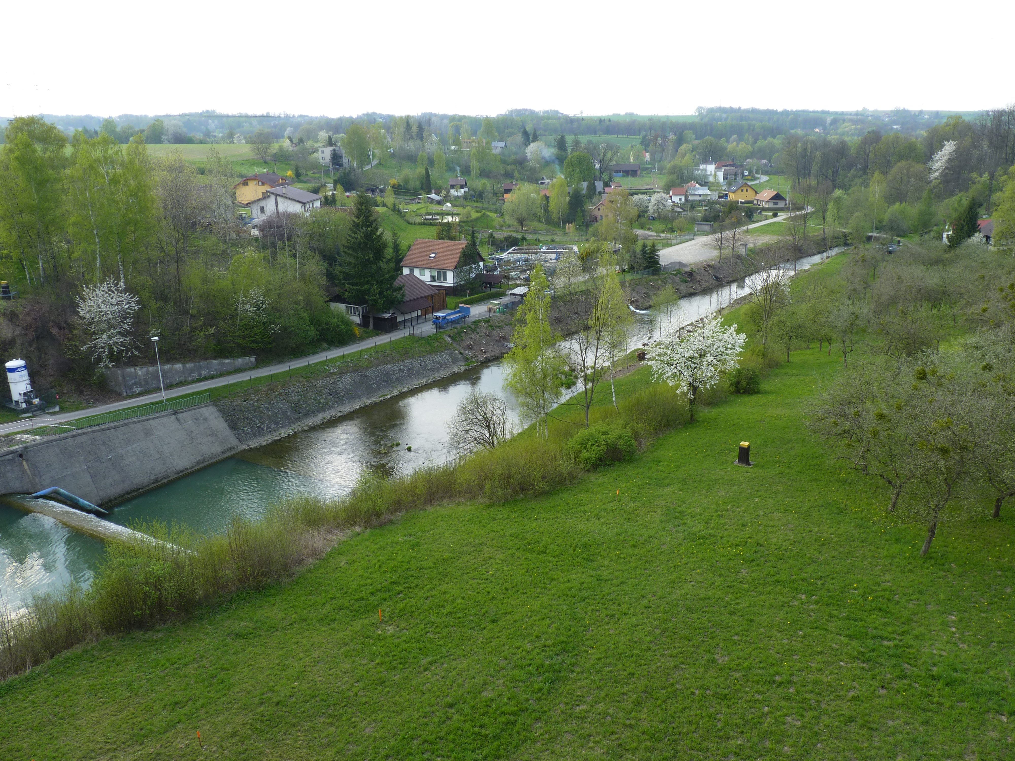 Lučina River. Frýdek-Místek District, Moravian-Silesian Region, Czech Republic